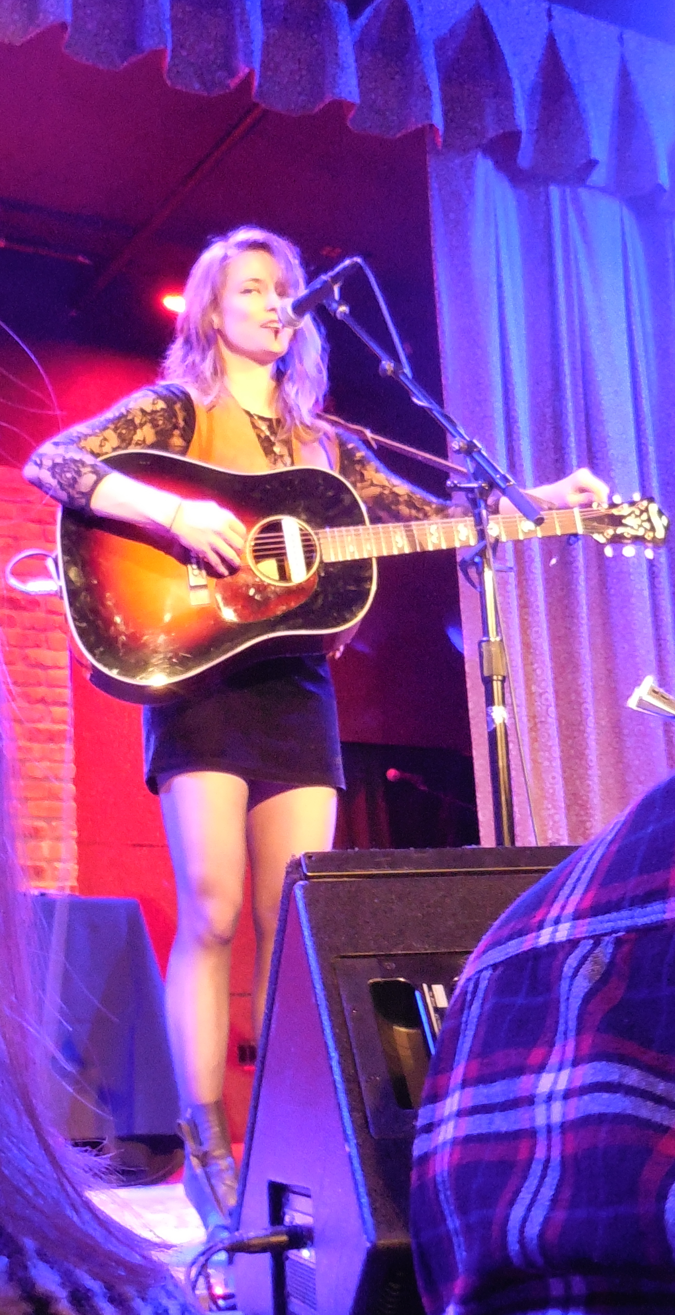 dawn Landes performing acoustic folk music in 2015 at the City Winery, Chicago franchise